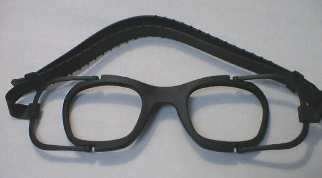 MCU-2P (Mask Compatible, Combat Spectacle, Mag-1). Authorized for wear by Coast Guard and Air Force. The only Army authorization is for "jumpers". SRTS Order Code MC.